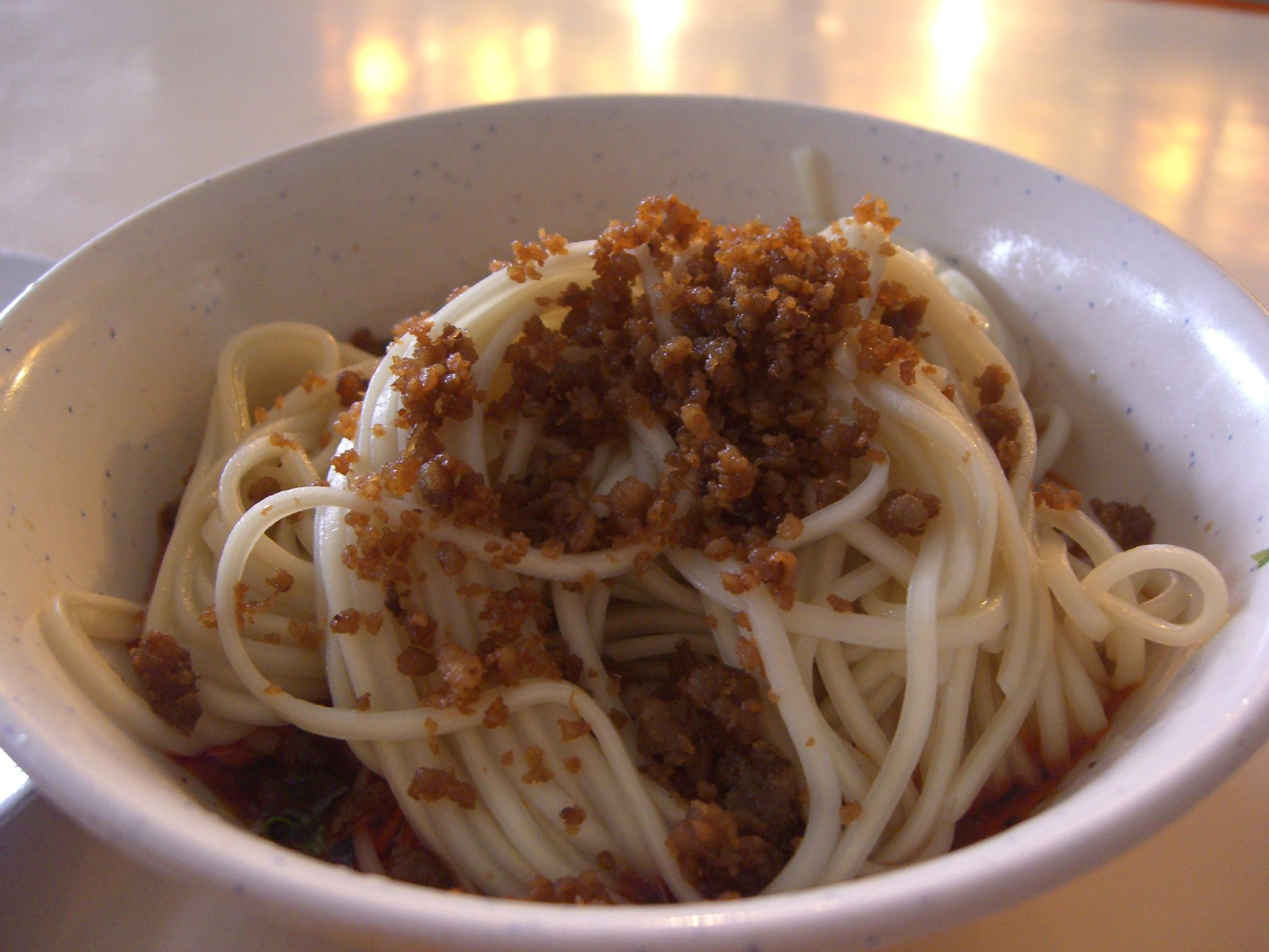 Dan-dan noodles served in Chengdu, in the Sichuan province of China. I suppose this is the original ??? Dandan Noodles, unlike the others I have had: - ??? Dan Dan Noodles - ??? Noodle Kingdom Russell St - Dandan Noodles - Basement, Ginza Palmy